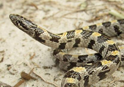 Close-up Short-Tailed Snake photographed November 2011 Central Florida